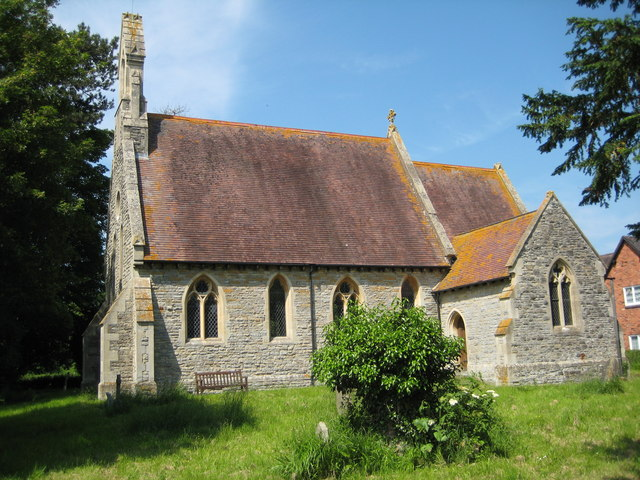 St Michael and All Angels parish church, North Piddle, Worcestershire, seen from the south